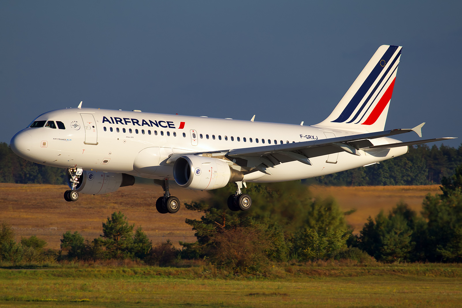 An Air France Airbus A319-115LR at Boryspil Airport (KBP / UKBB)